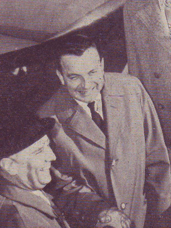 Walter Barylli in Japan. taken in December 10, 1957. in Haneda Airport.